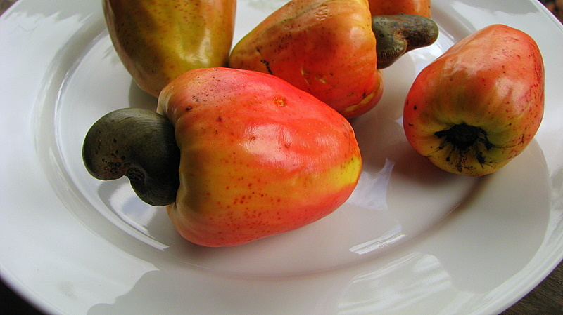 Cashew apples, with cashew nuts attached to the expanded peduncle.